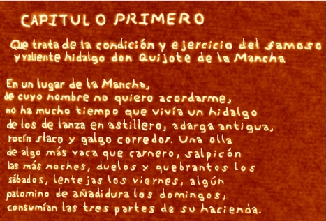 First paragraph of Cervantes' Don Quixote written on a silicon chip by local oxidation nanolithography. The local oxidation technique would allow to write all the book (more than 1,000 pages) on a surface as big as the tip of one human hair.